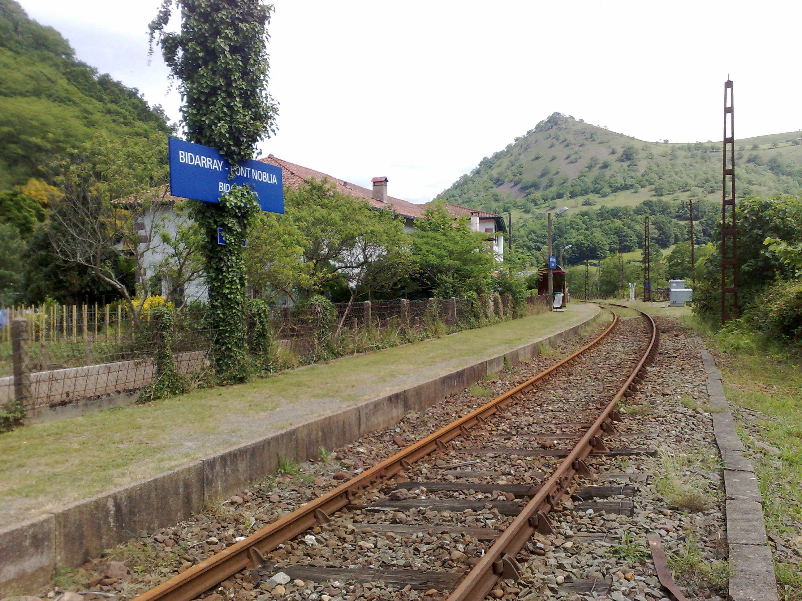 Bidarrai train station towards Donibane Garazi (fr Saint-Jean-Pied-de-Port), Lower Navarre, Basque Country.